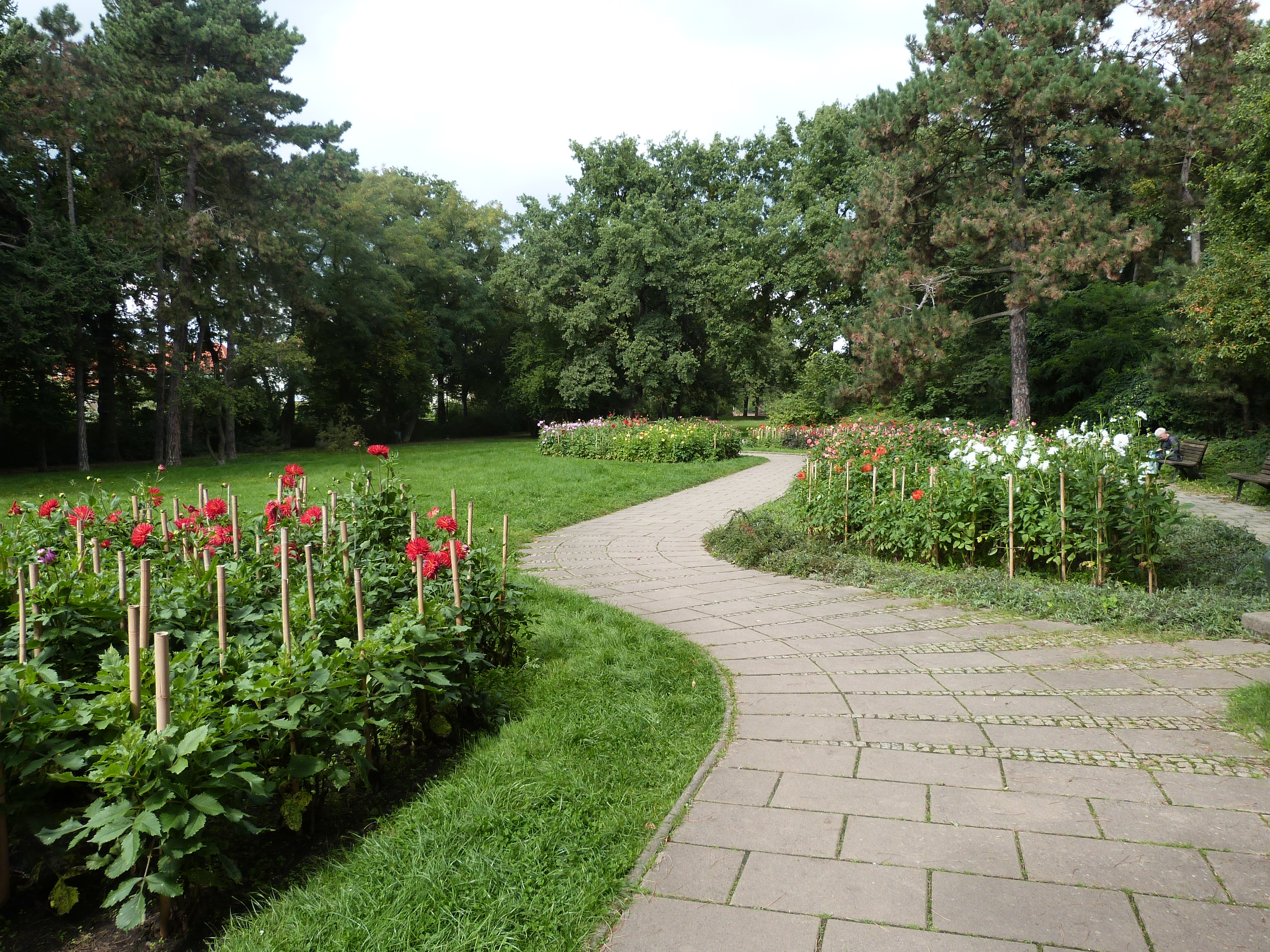 Pestalozzi Park in Halle (Saale), Dahlias garden